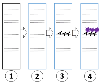 Very simple diagram for teaching western blot.